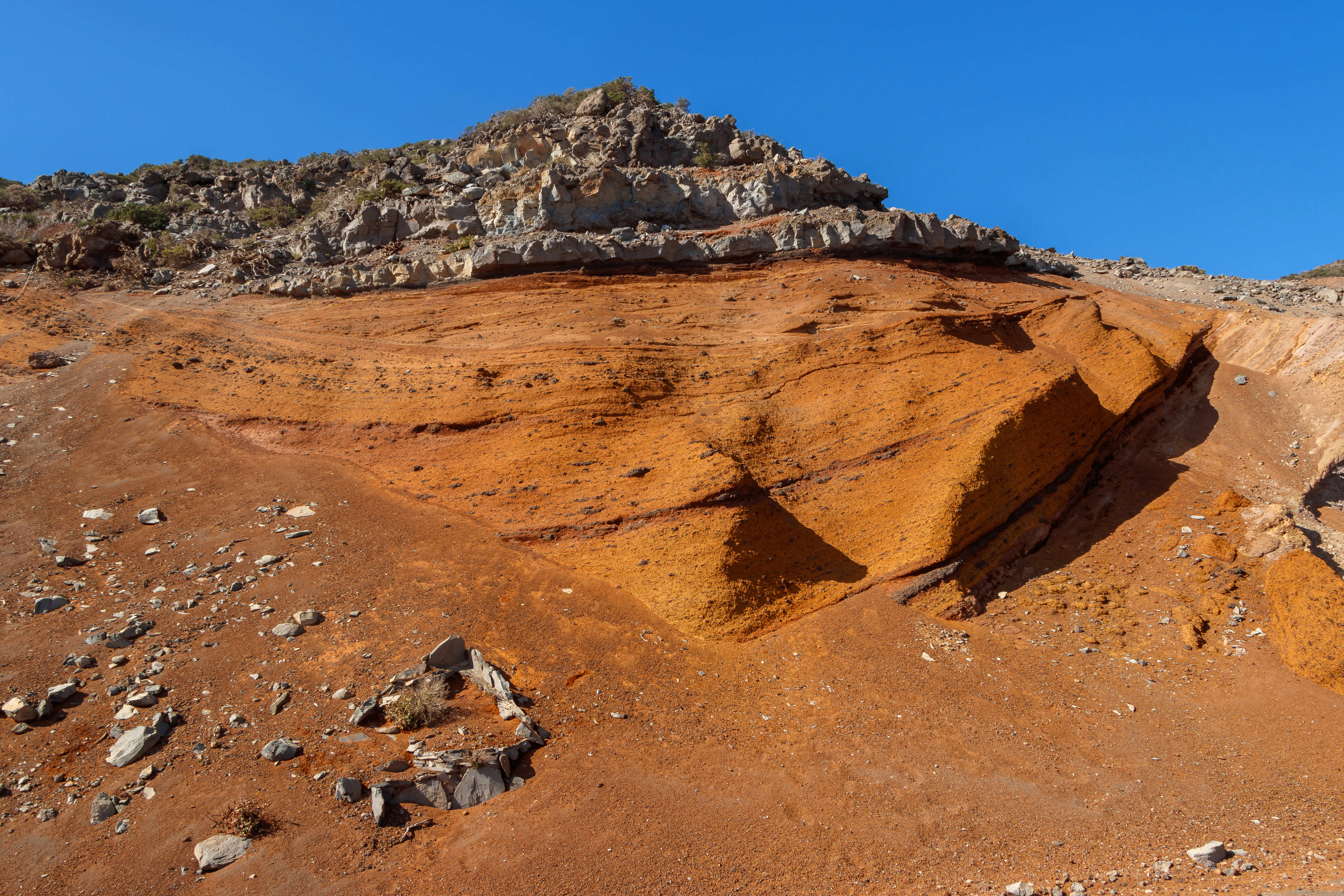 Tephra layers at the LP-4 near Cumbre San Andrés y Sauces, San Andrés y Sauces, La Palma, Canary Islands, Spain.